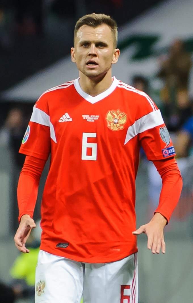 Denis Cheryshev on 10 October 2019, during the 2020 UEFA European Championship qualifying match between Russia and Scotland in Moscow.